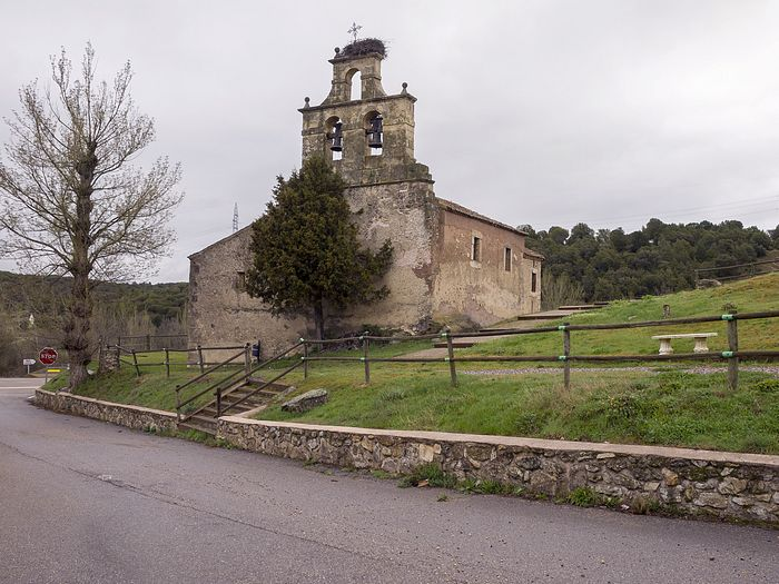 Iglesia